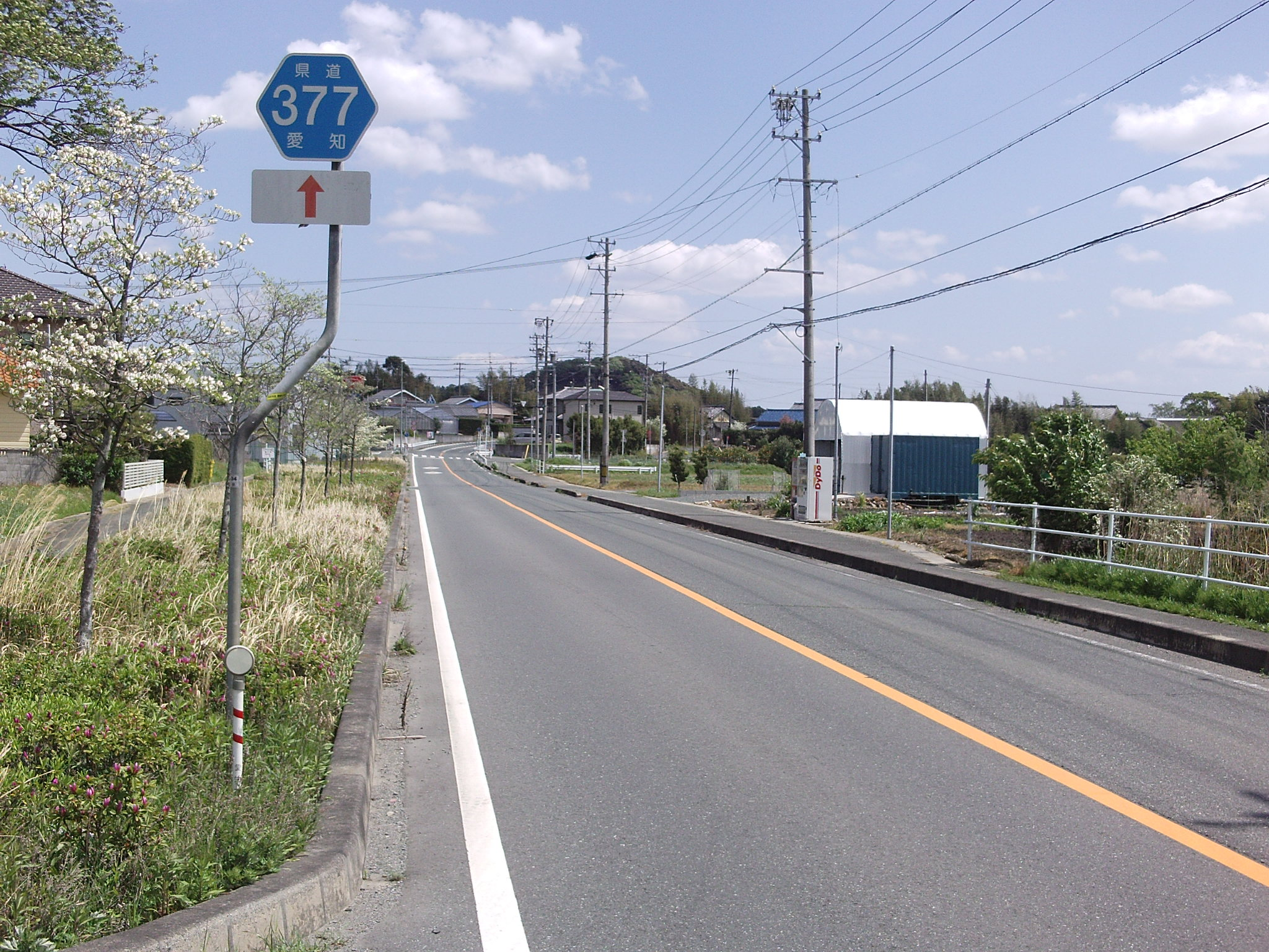 Aichi prefectural road No.377 in Hirao, Toyokawacho, Aichi.